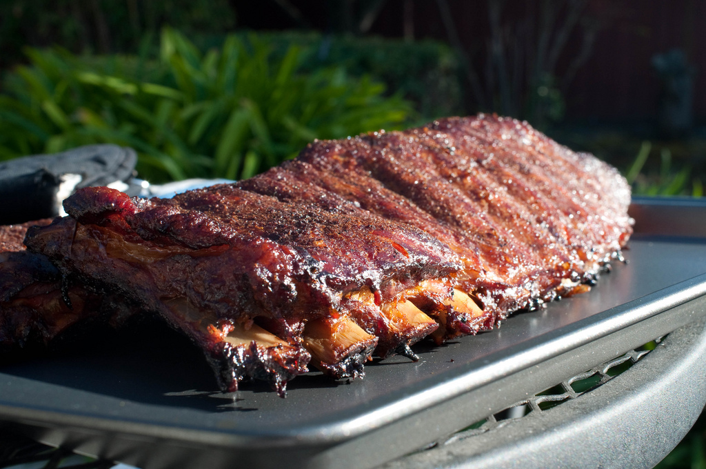 St. Louis ribs, ready to eat. This popular cut of pork was named by Steve Olson, a Cardinals baseball fan and USDA employee. Photo by Ernesto Andrade.